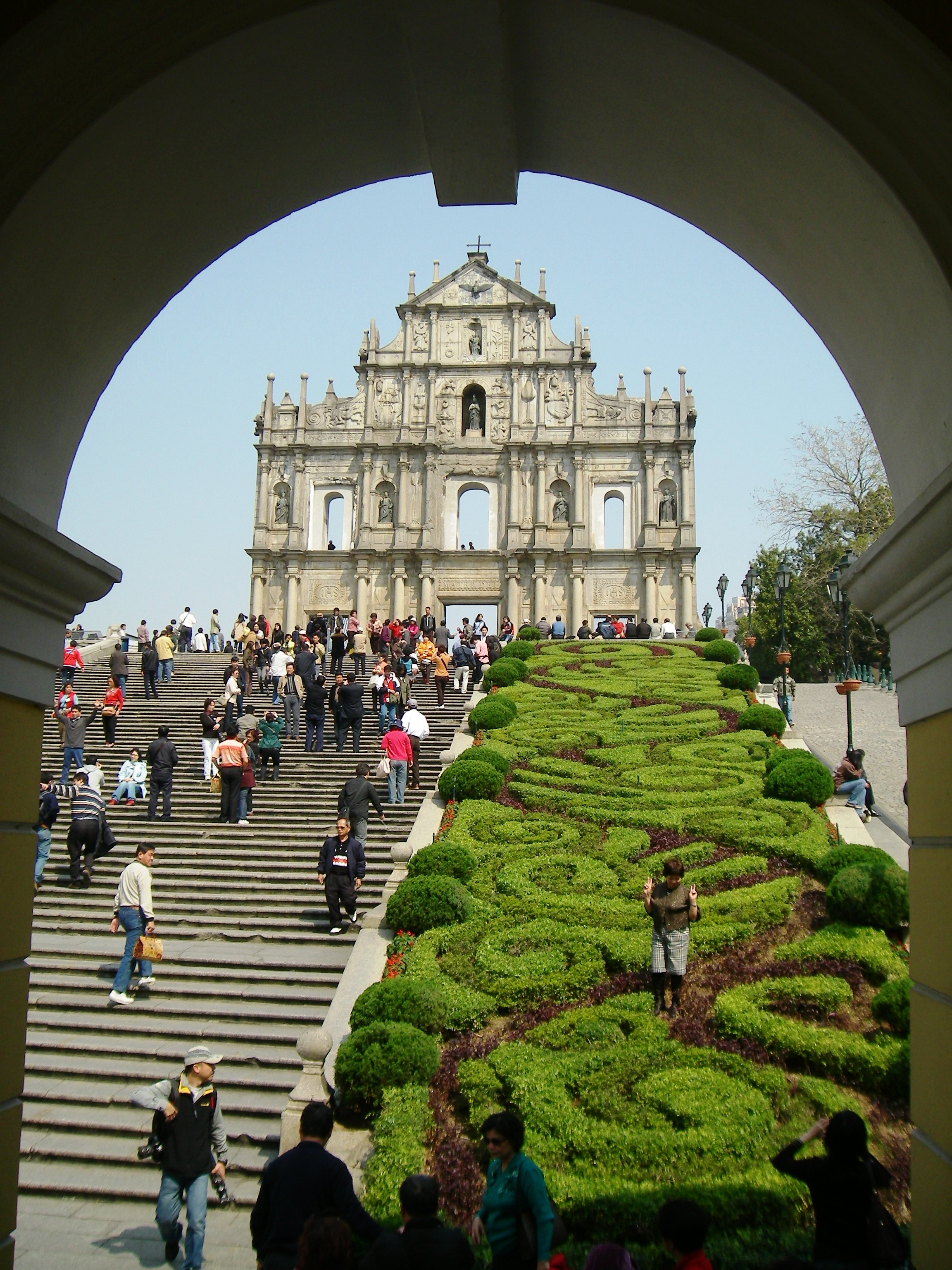 St Paul's Ruins from below, Macau